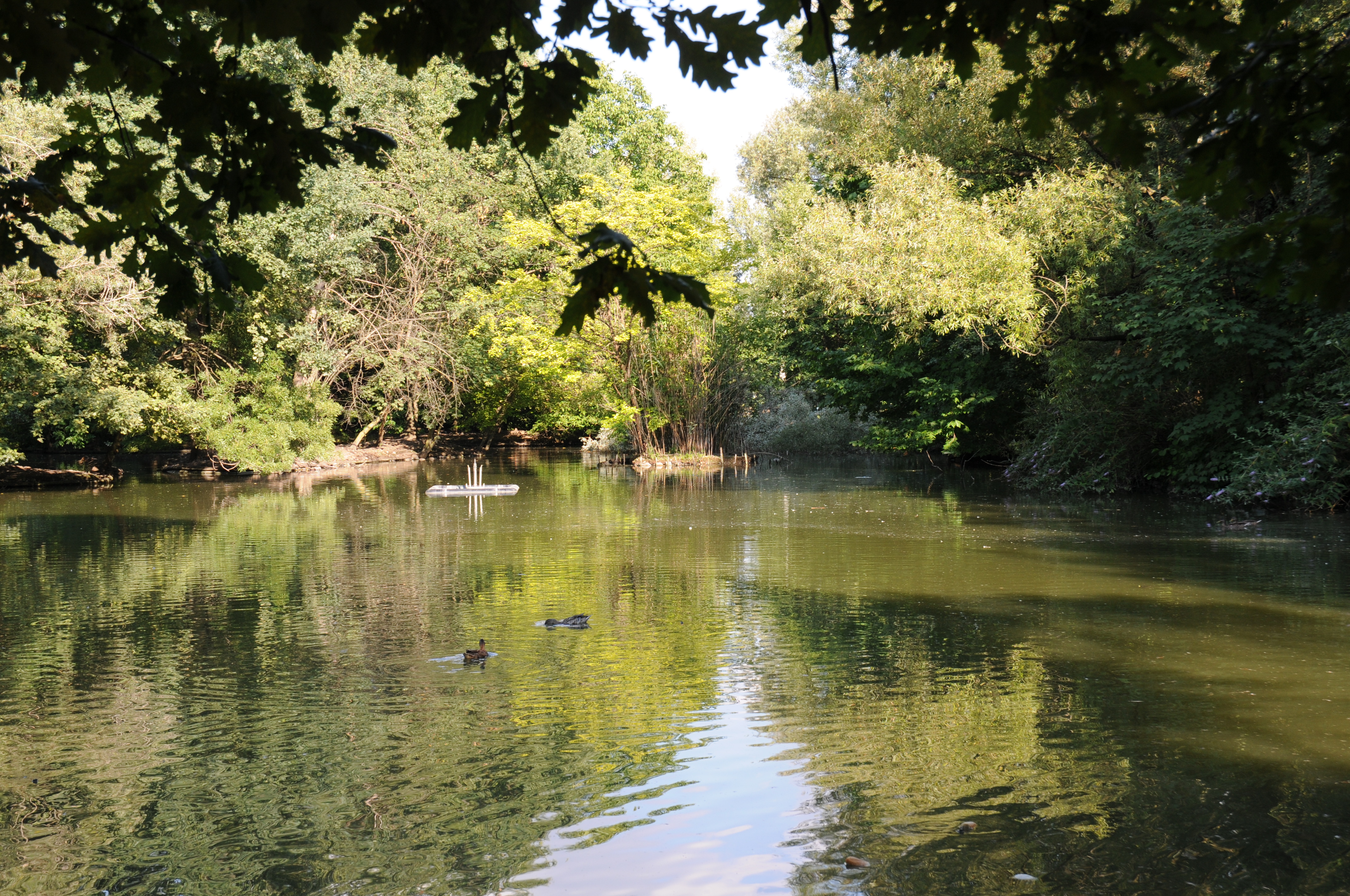 Castle Park in Legnano (Italy)